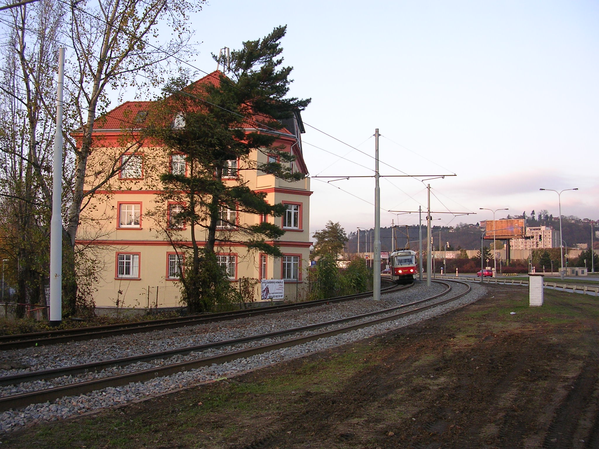 Braník, Prague.